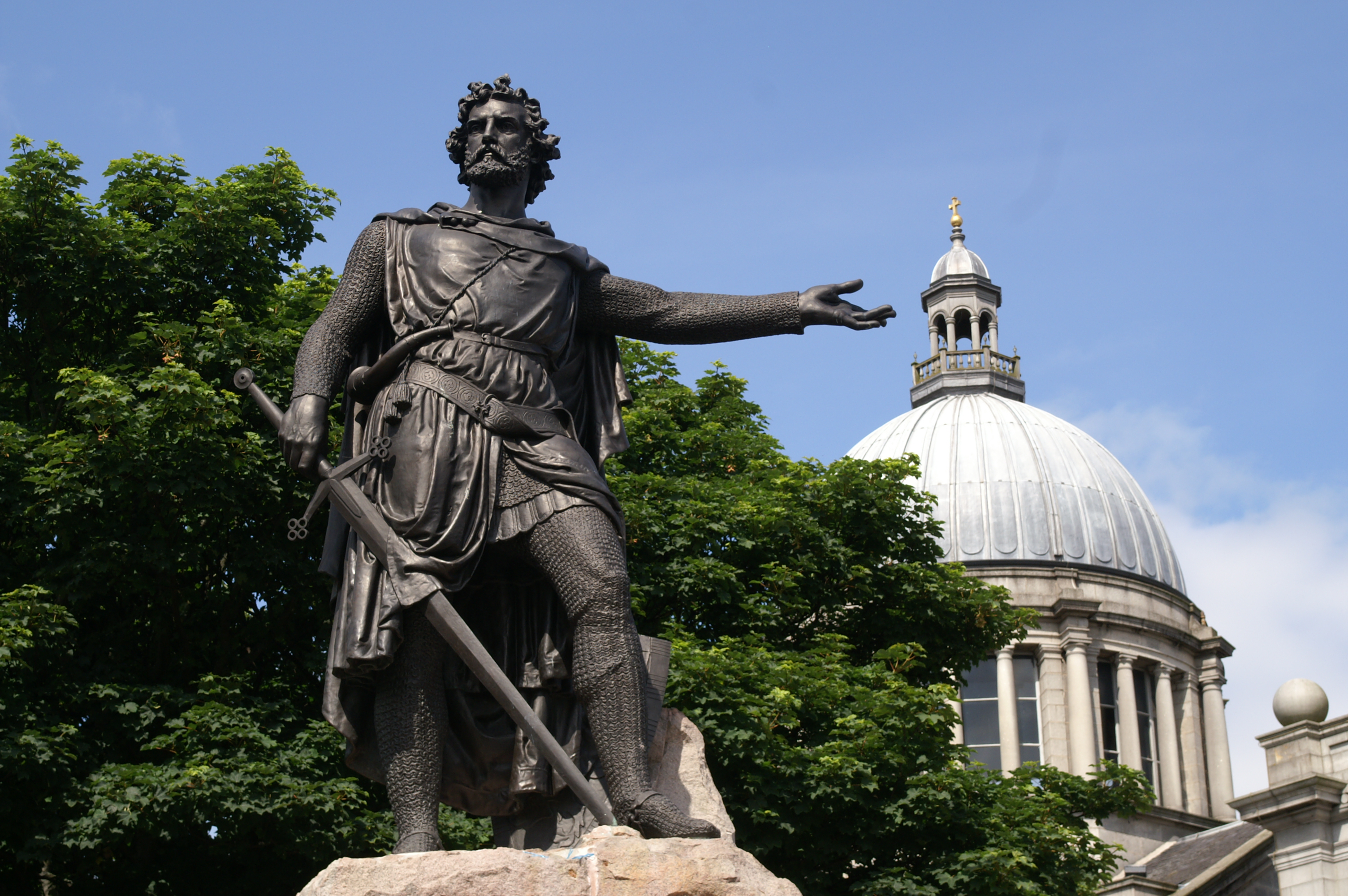 William Wallace Statue. Photo taken by Axis12002